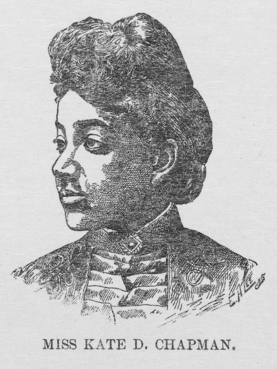 Tillman in 1891